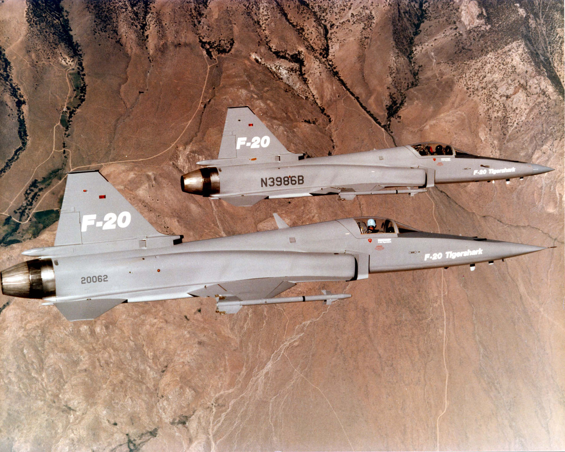 Northrop F-20 two-aircraft formation (82-0062 and N3986B). (U.S. Air Force photo)